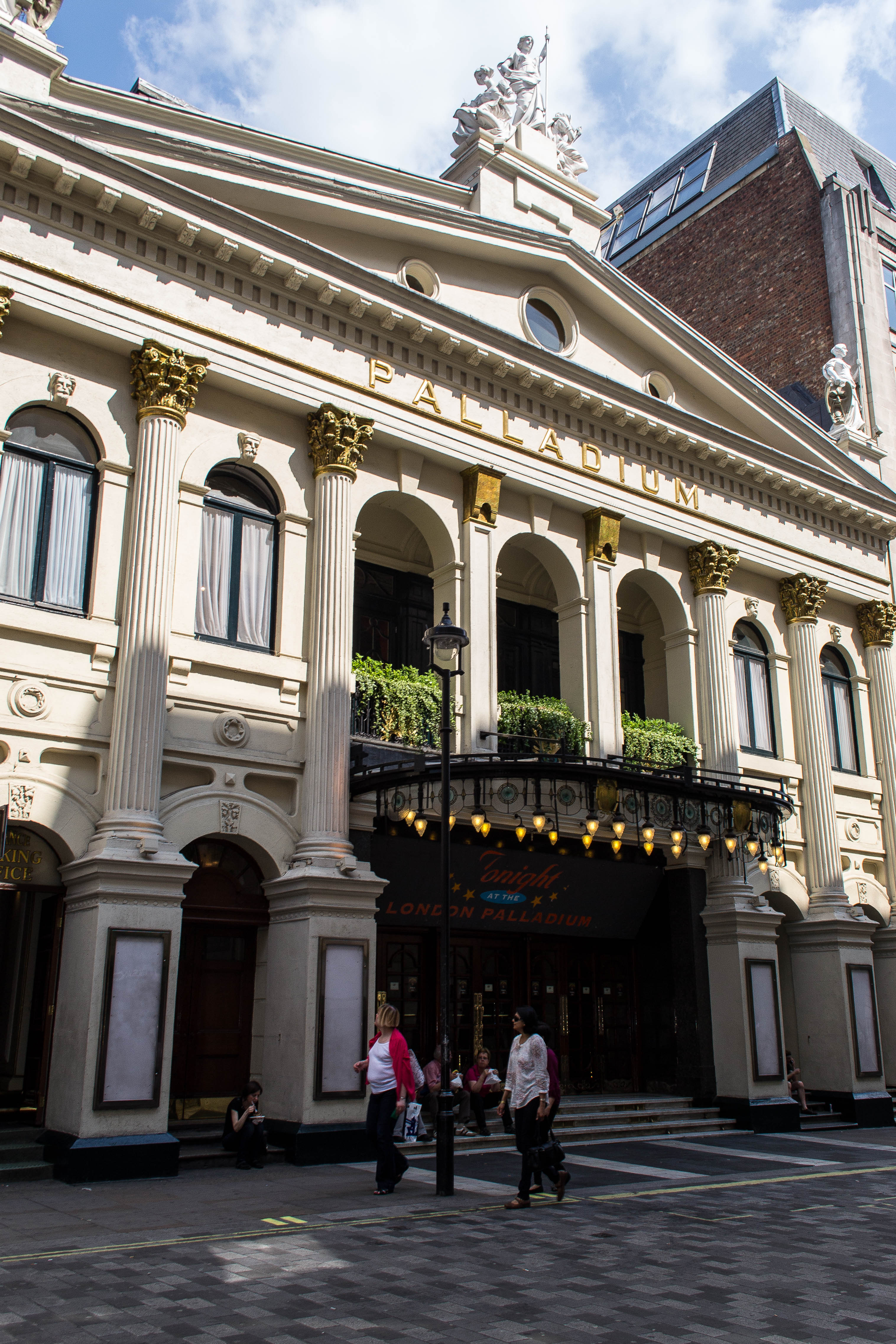 THE LONDON PALLADIUM THEATRE Wikidata has entry Q676755 with data related to this building.